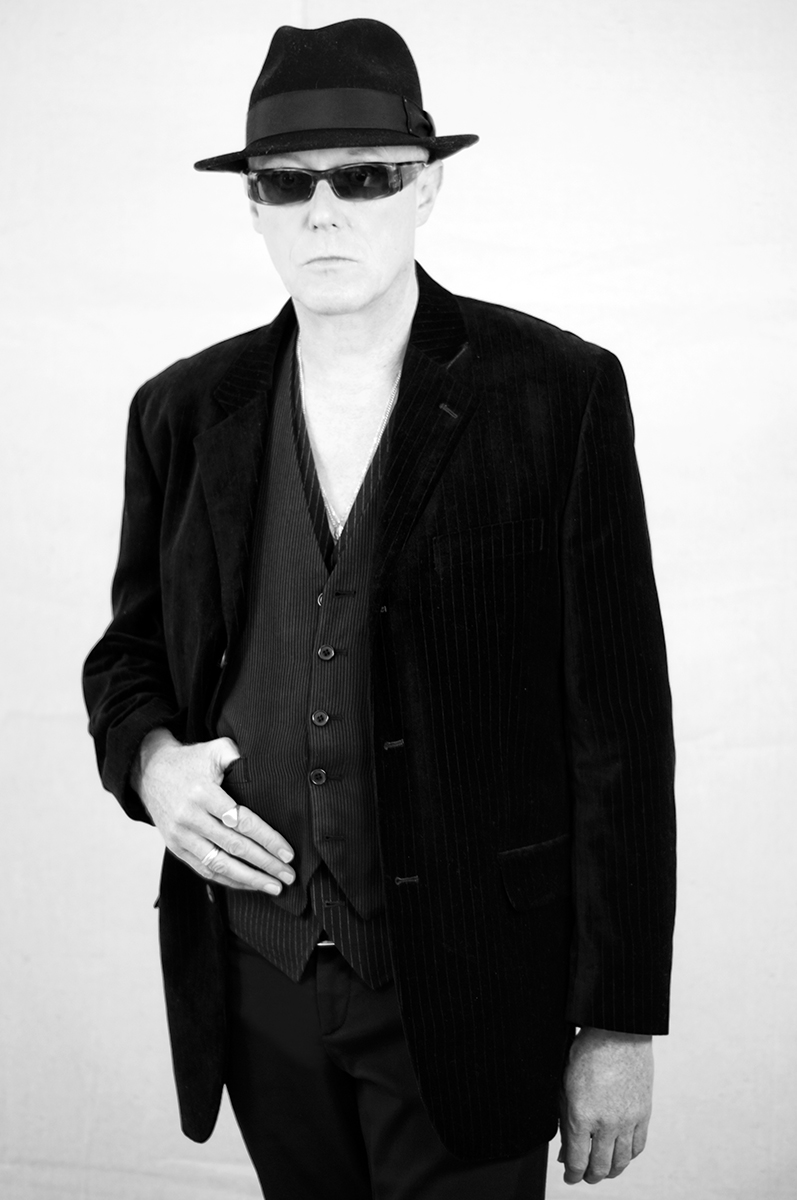 David J and The Gentleman Thieves (David)